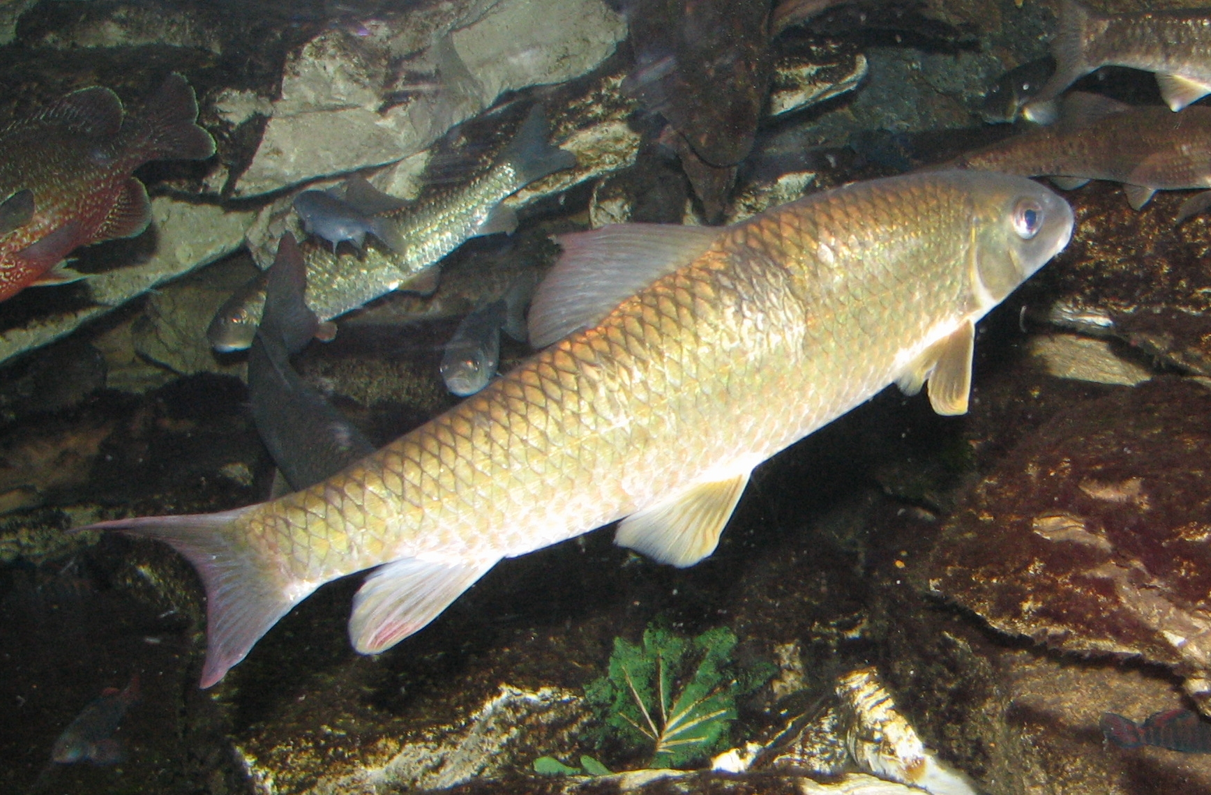 Golden Shiner (Notemigonus crysoleucas) at Newport Aquarium